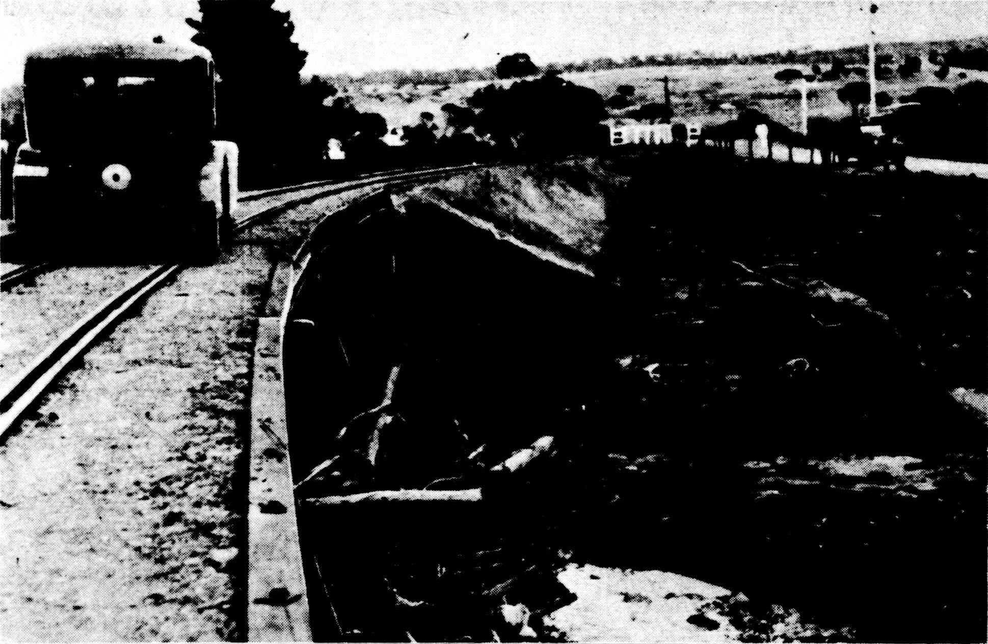 A car going across the railway bridge at Clackline, Western Australia. This was the only means by which road traffic could get past Clackline, as the road (visible in background) was flooded. The trunks and branches of trees can be seen wedged under the supports of the bridge. The bridge was later destroyed by bushfire in December 1993.